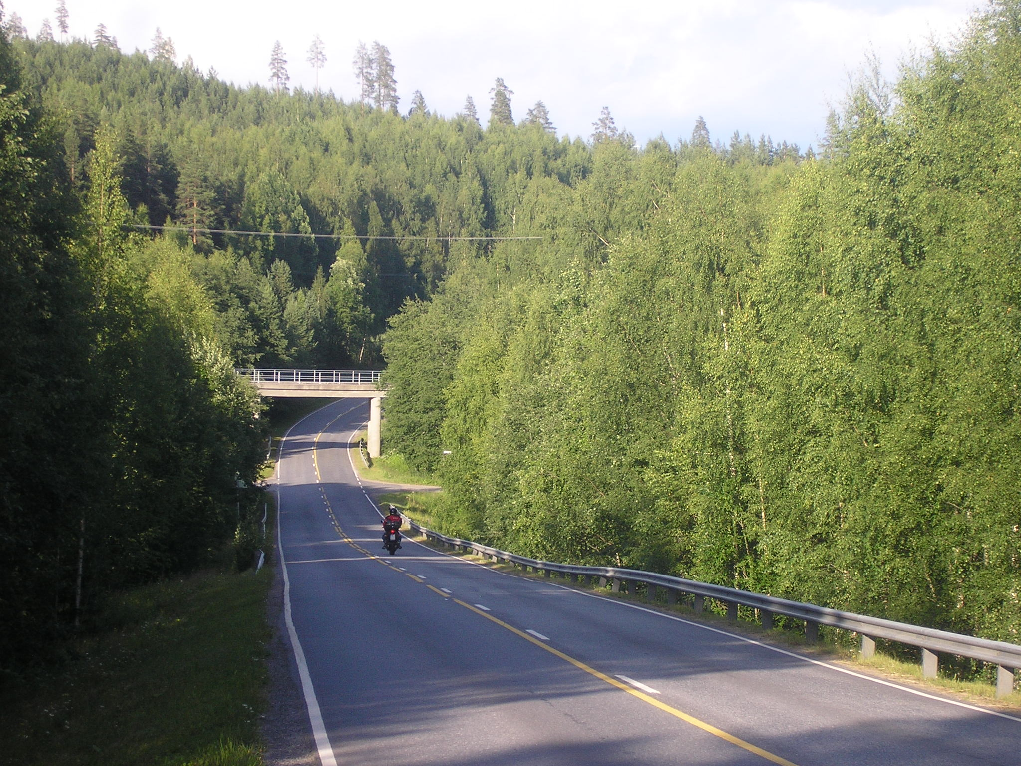 Connecting road 6090 in Jyväskylä, Finland near the border of Muurame